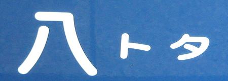 Symbol of JR East Toyoda Rolling Stock Center, marked on its rolling stock